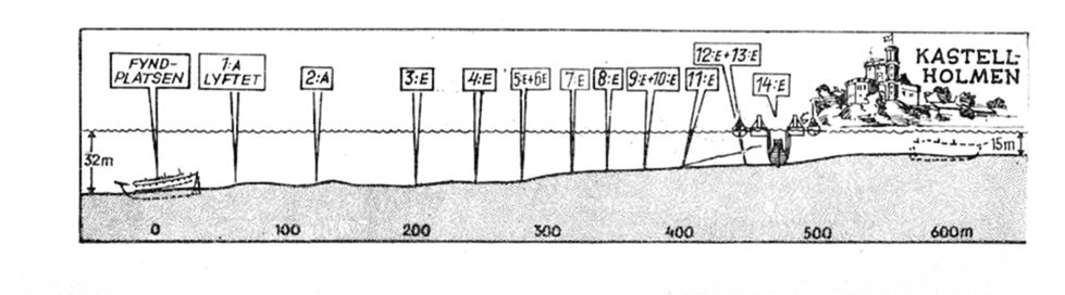 Successive rising of Swedish warship Vasa year 1959